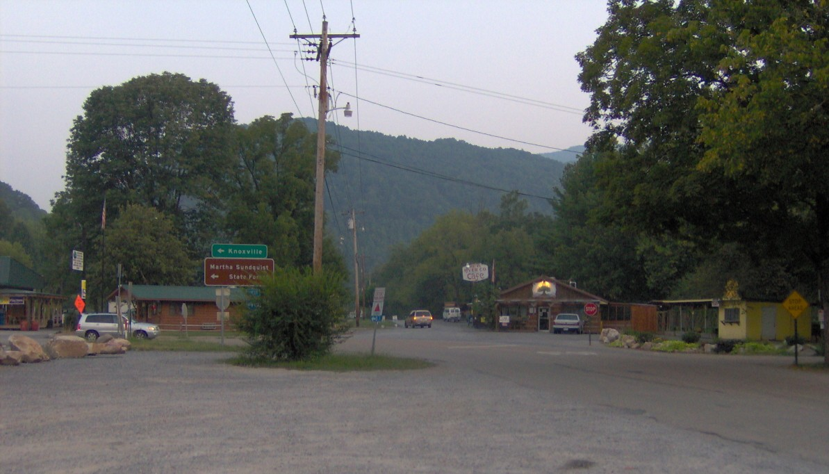 Hartford Tennessee, on the south side of Interstate 40.